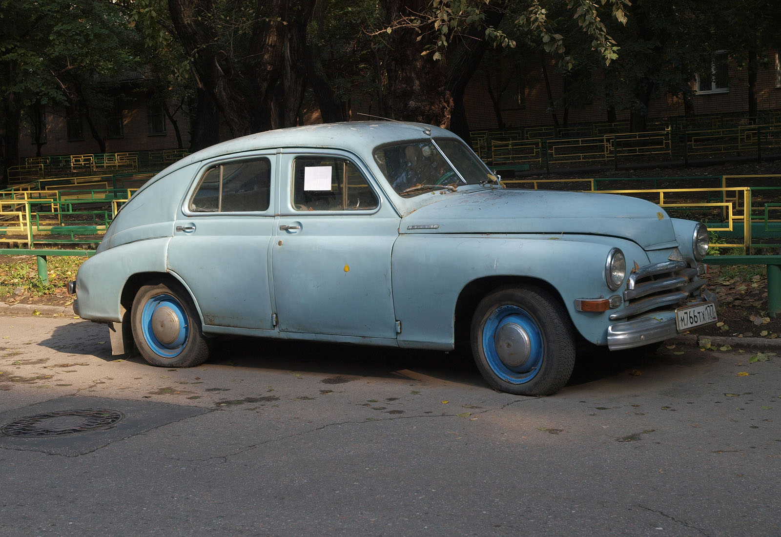 GAZ Pobeda, Moscow